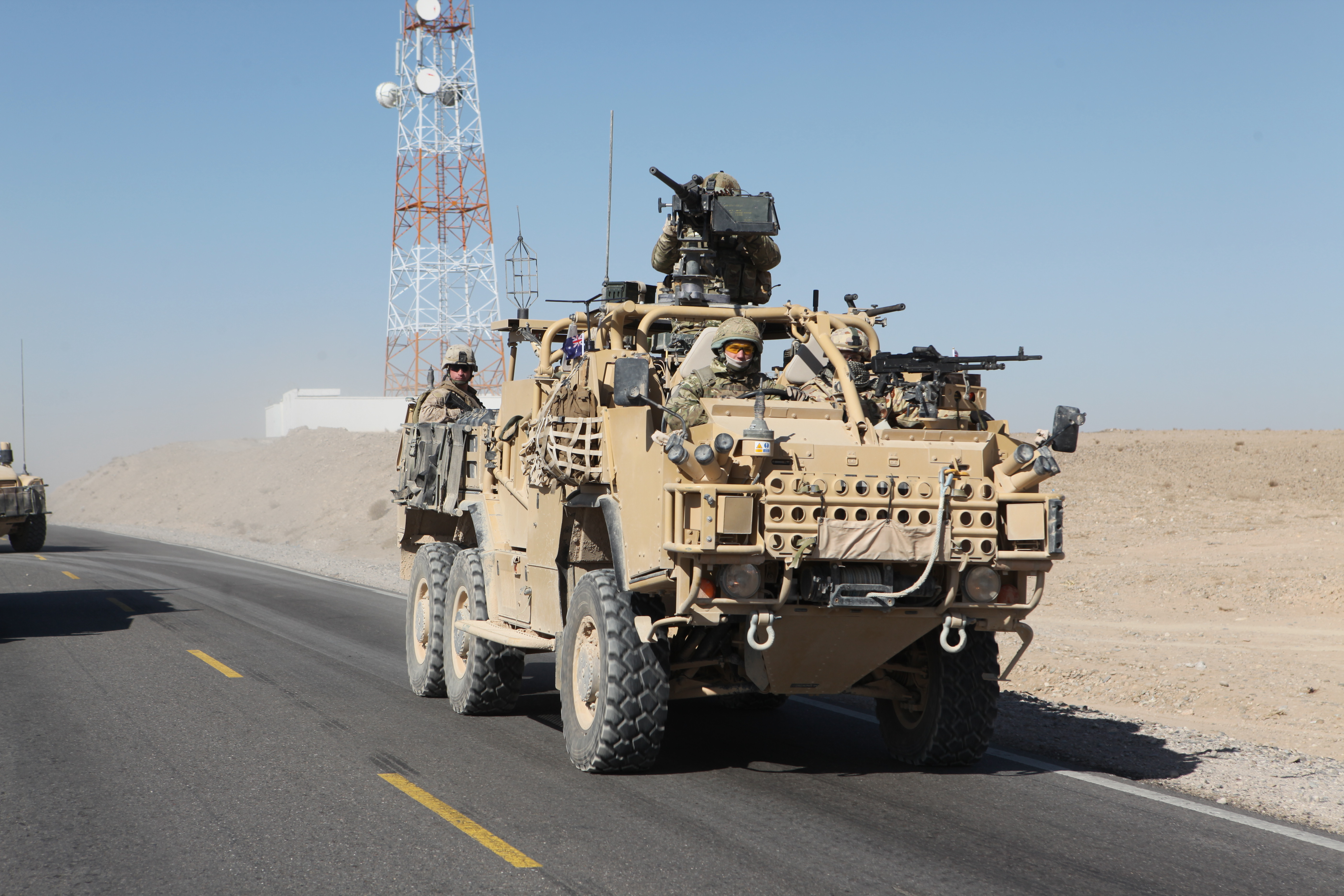 U.S. Marine Corps Maj. Gen. Richard P. Mills, the commander of Regional Command Southwest (RC SW); and Sgt. Maj. Michael Barrett, the sergeant major of RC SW, travel to Maiwand, Afghanistan, Jan. 26, 2011, to receive updates on road construction and security operations. They also traveled to Lashkar Gah in Helmand province to meet with Helmand province Gov. Gulab Mangal and other Afghan leaders in support of the International Security Assistance Force.